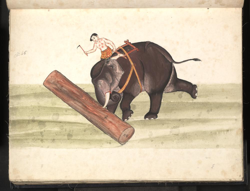 Watercolour painting by an unknown Burmese artist depicting 19th century Burmese life. Elephant